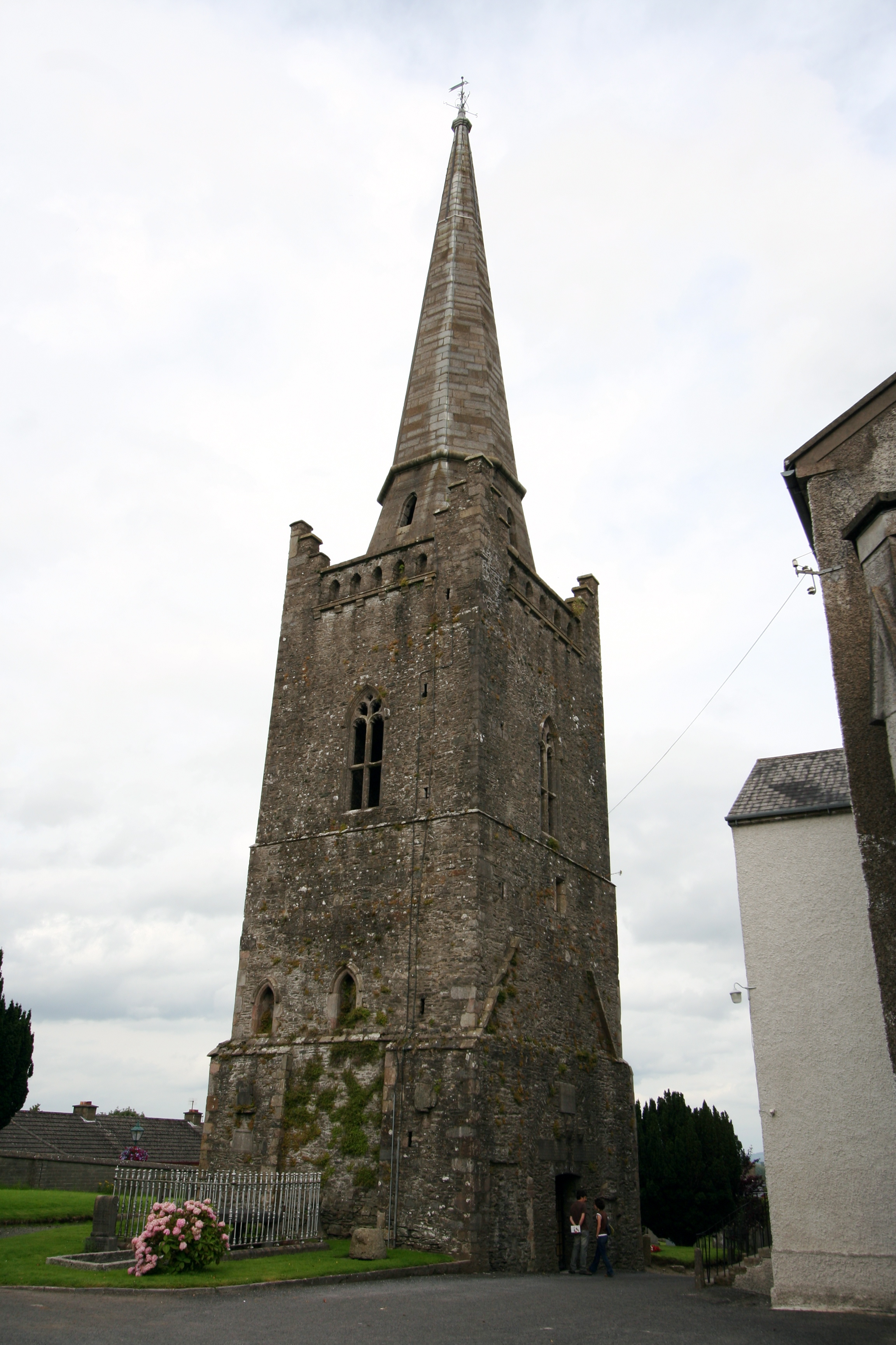 Kells Abbey, Kells, County MeathMonasterio de Kells